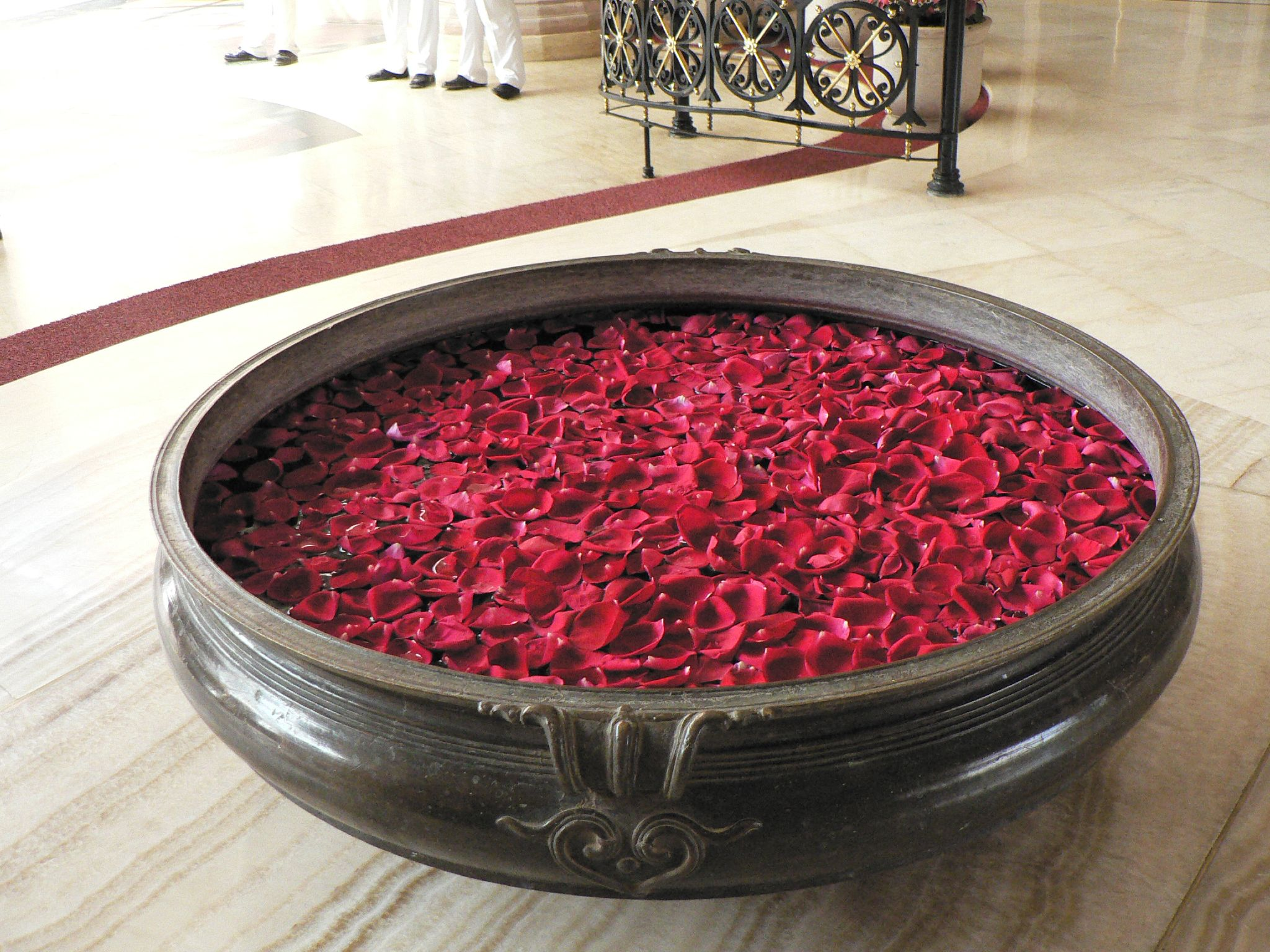 Rose petals in scented water